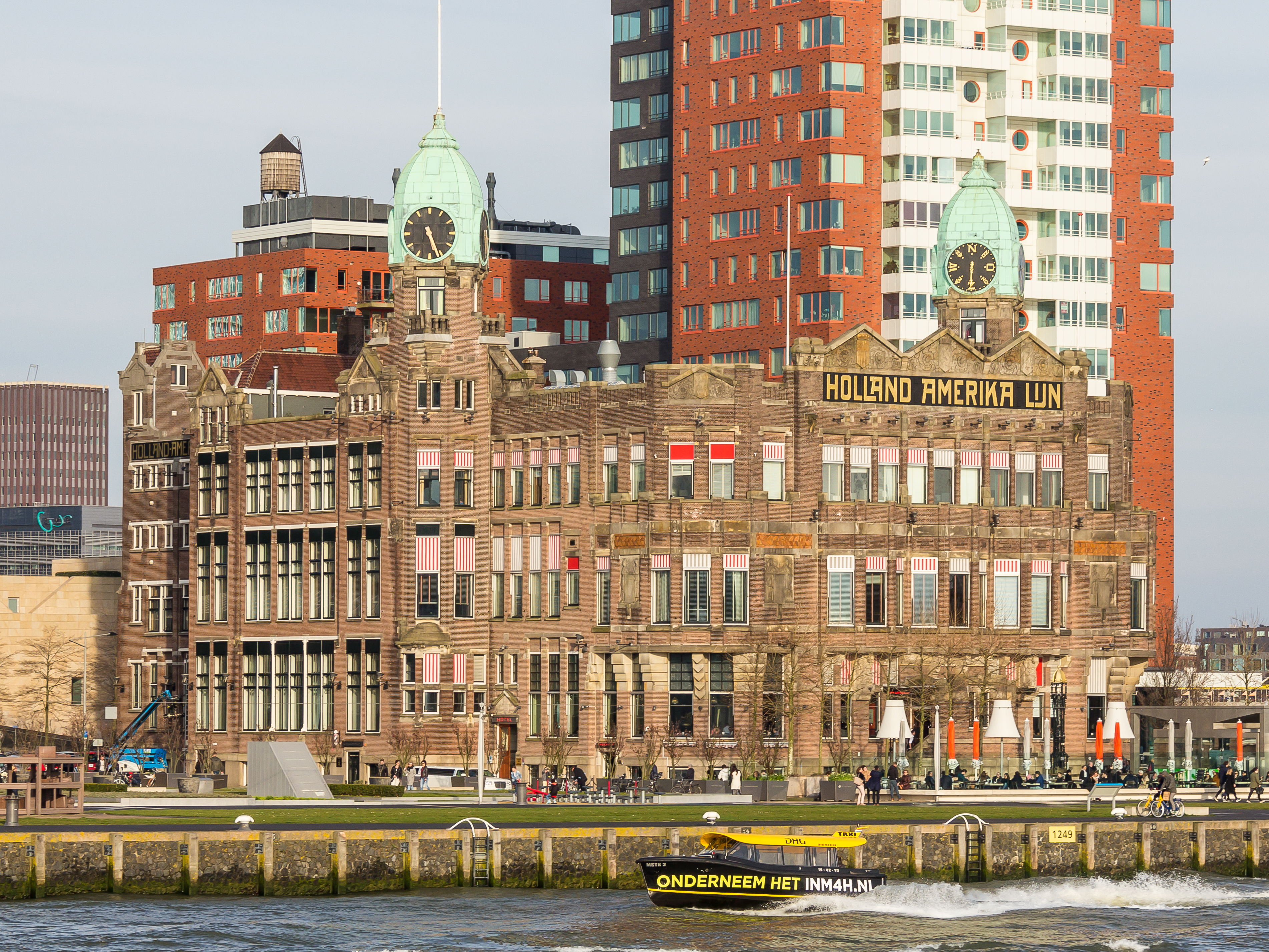 Hotel New York, Rotterdam, ex headquarter of Holland-America Line